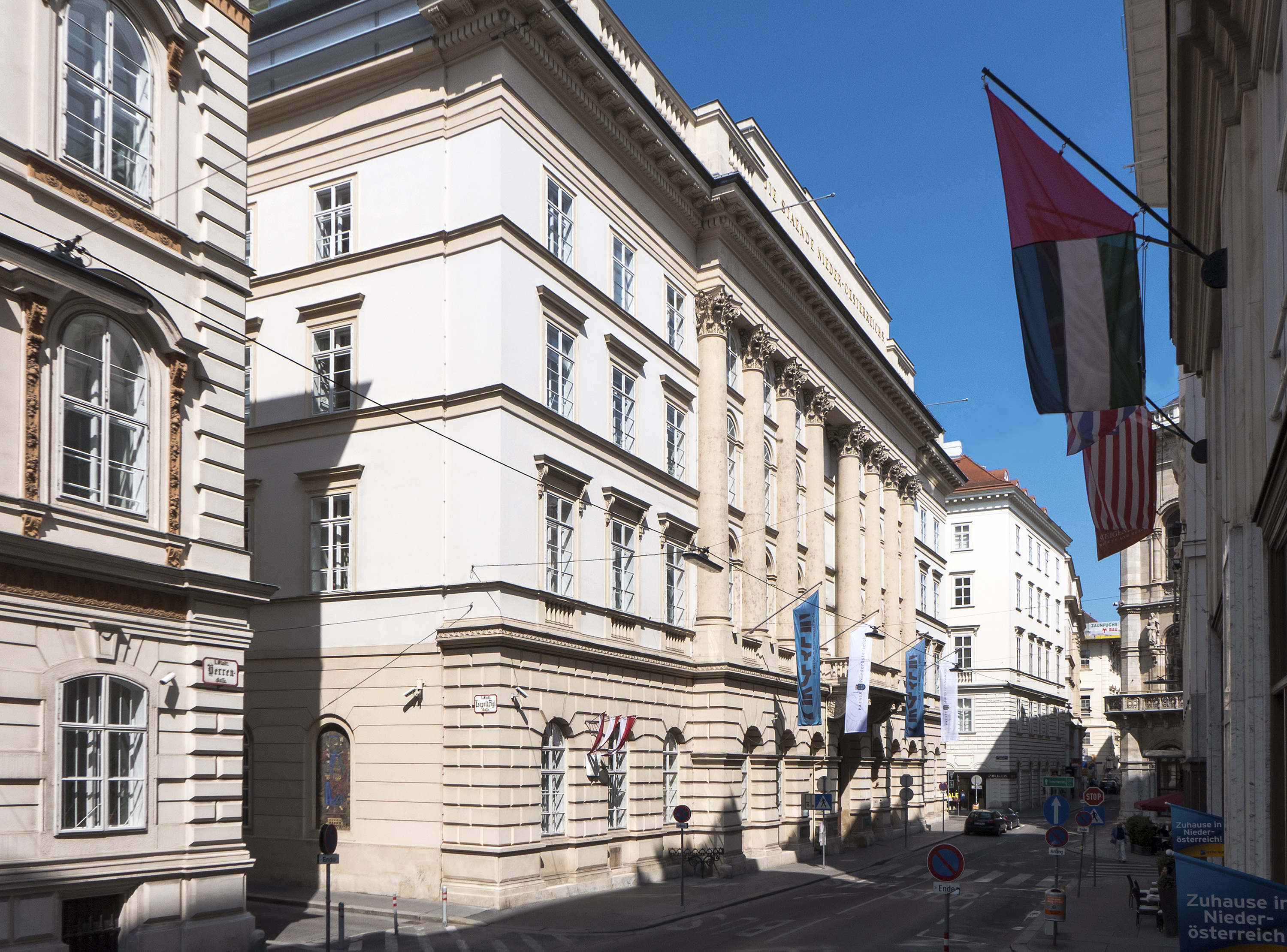 Palais Niederösterreich at Herrengasse 13 in Vienna 1